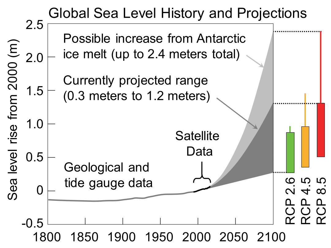 Observed and projected changes in global mean sea level for 1800–2100. The boxes on the right show the very likely ranges in sea level rise by 2100 (relative to 2000) corresponding to three different RCP scenarios. The lines above the boxes show possible increases based on newer research of the potential contribution to sea level rise from Antarctic ice melt. Data from the U.S. Global Change Research Program for the Fourth National Climate Assessment.